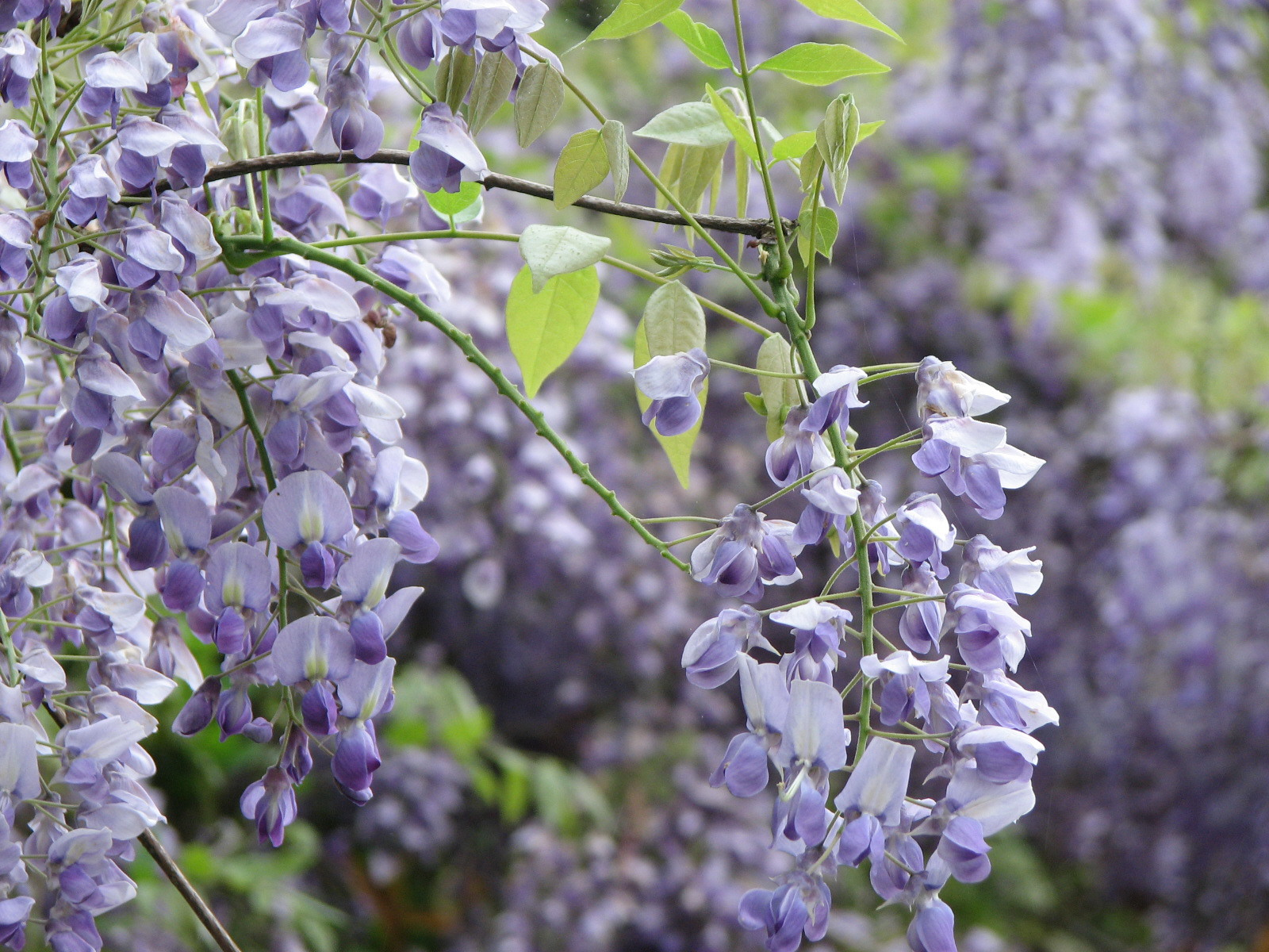 Wisteria brachybotrys(Wild wisteria) at Naruto Japan.(成東市・ヤマフジの大群落)